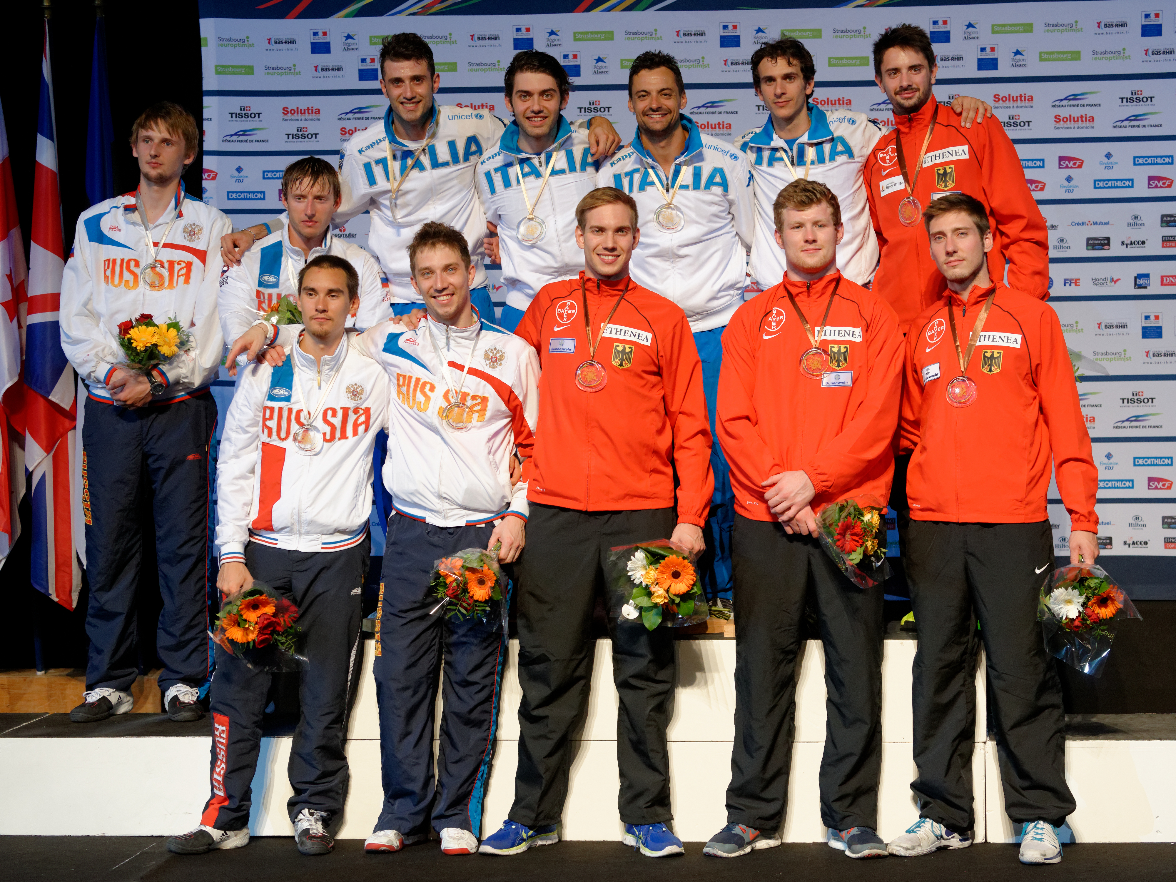 Russia (in white, on the left), Italy (in white, in the middle), and Ukraine (in red, on the left) at the award ceremony of the team men's sabre event at the European Fencing Championships at Rhénus Sport in Strasbourg on 14 June 2014.